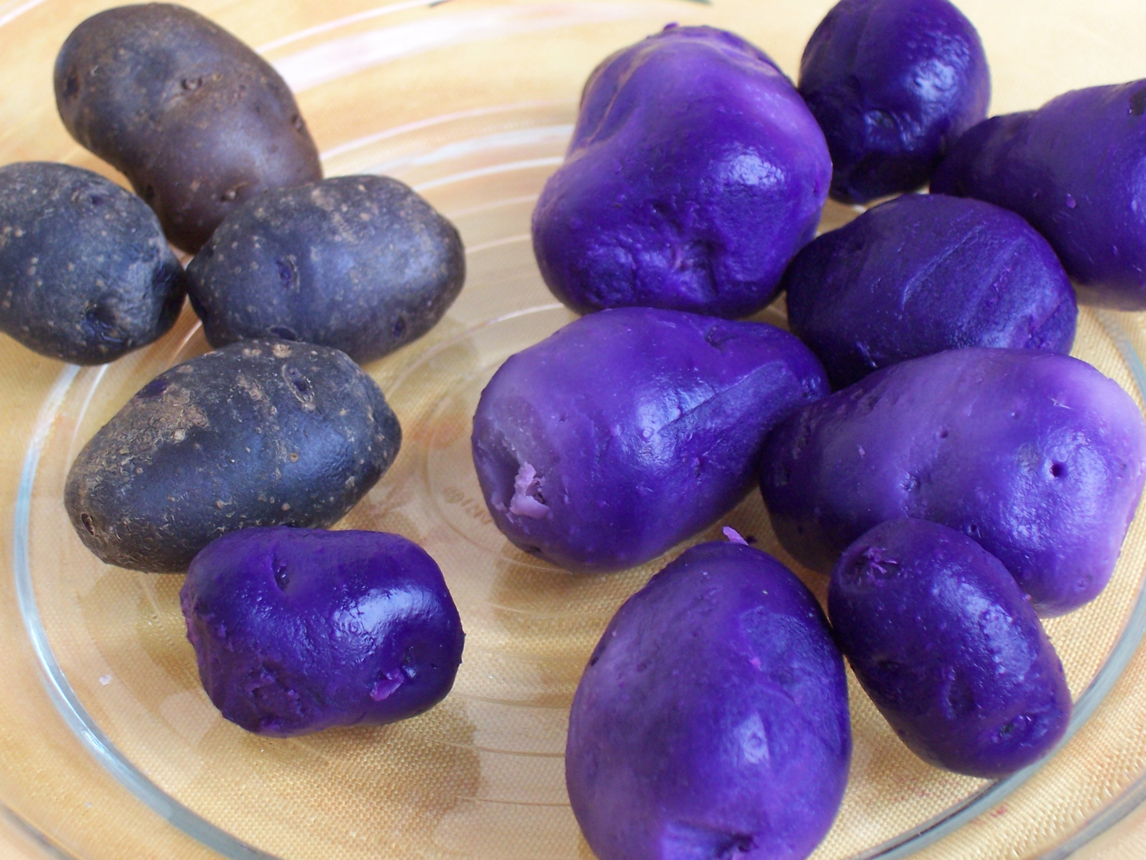 Boiled Potatoes (Vitelotte) (shucked and not).